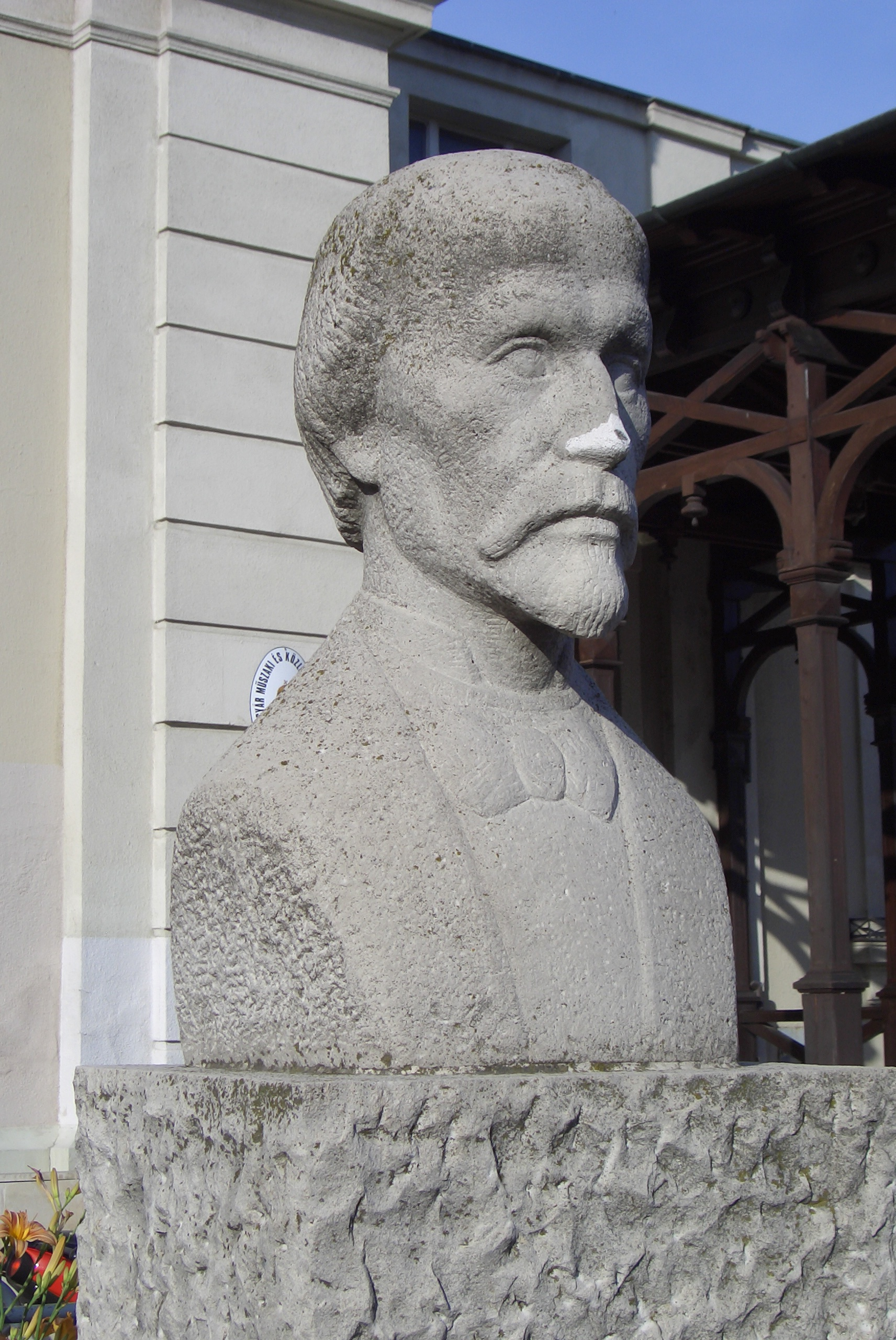 Bust of Adam Clark (1811-1866), in the City Park of Budapest, at the main entrance of the Transport Museum